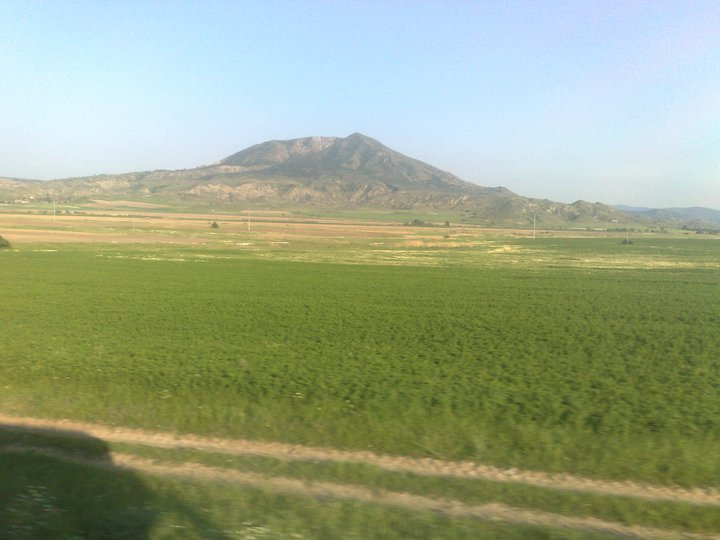 Bogoslovec hill on the southern end of Ovče Pole, Macedonia